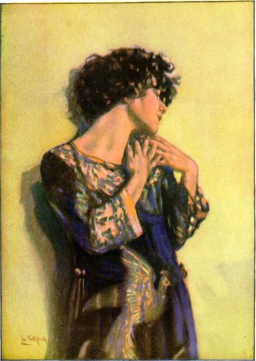 Actress Alla Nazimova, page 7 of the December 1919 Shadowland.